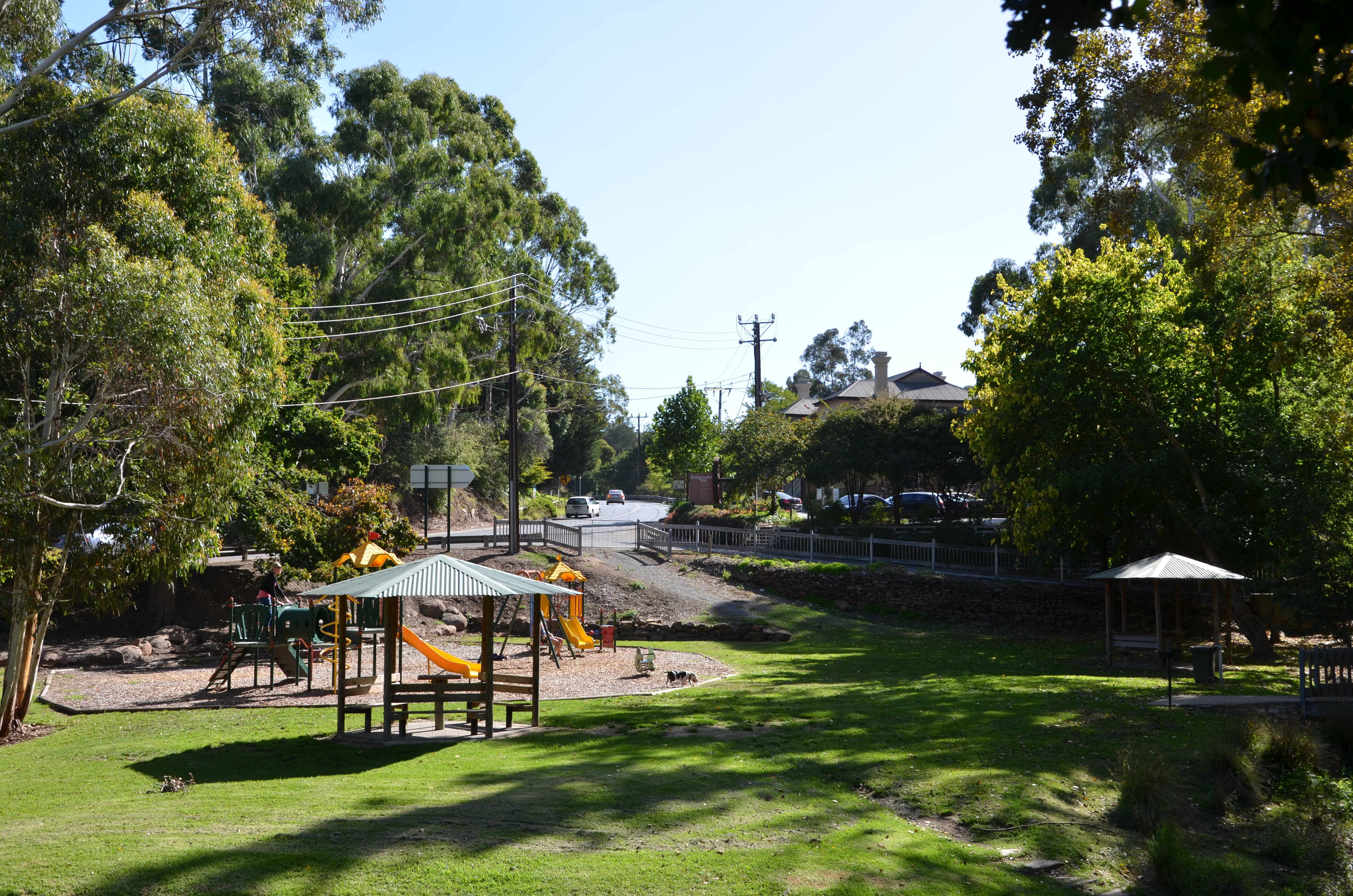 Public park near Bridgewater Mill (middle distance), Bridgewater, South Australia